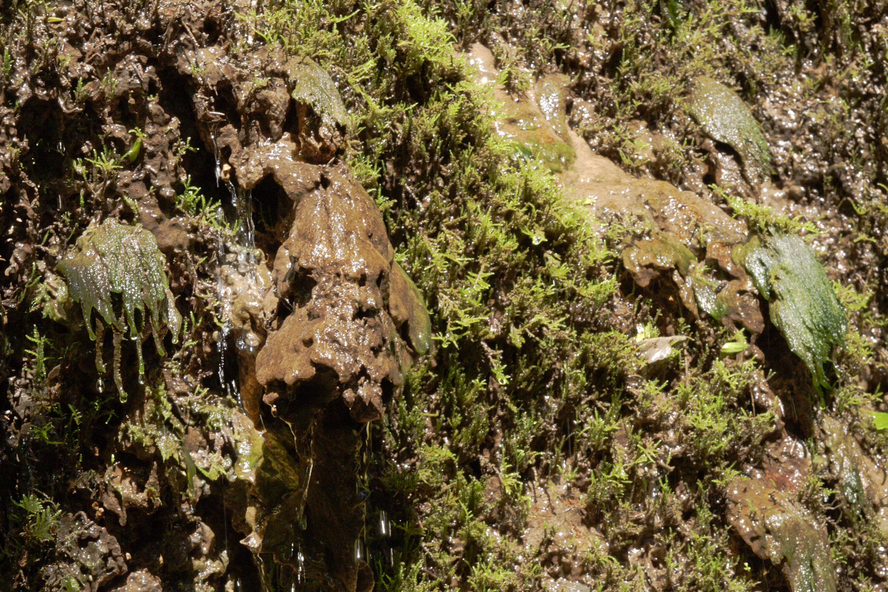 Detail of calcareous tuff at the 7-m-water-fall of the very tiny rivulet “Fleinsbrunnenbach”, in a valley directly after “Seeburg” (Bad Urach), Swabian Alb. The rivulet messures only 1,5 km from karst spring to its flowing into rivulet “Erms”. Fleinsbrunnenbach’s water carries an enormous amount of soluted calcium carbonate, which is chemically precipitated by Palustriella commutata (class of mosses: Bryophyte) as seen in the photograph. When freshly sedimented, the calcareous tuff is a washy-brown mass, when dry, it hardens and incrusts the mossplants, which continue to grow. Research done on the Fleinsbrunnenbach in 1993-1995, published in “Sedimentary Geology 126 (1999) 103–124”, even found „organic substrates, particularly cyanobacteria-dominated microbial mats and biofilm”, that are covered by calcium crystals.